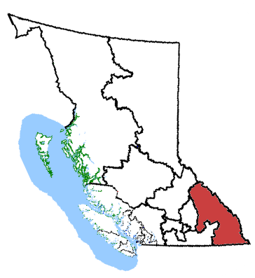 Map of the Kootenay—Columbia electoral district. Based on Earl Andrew's maps, created by SimonP.